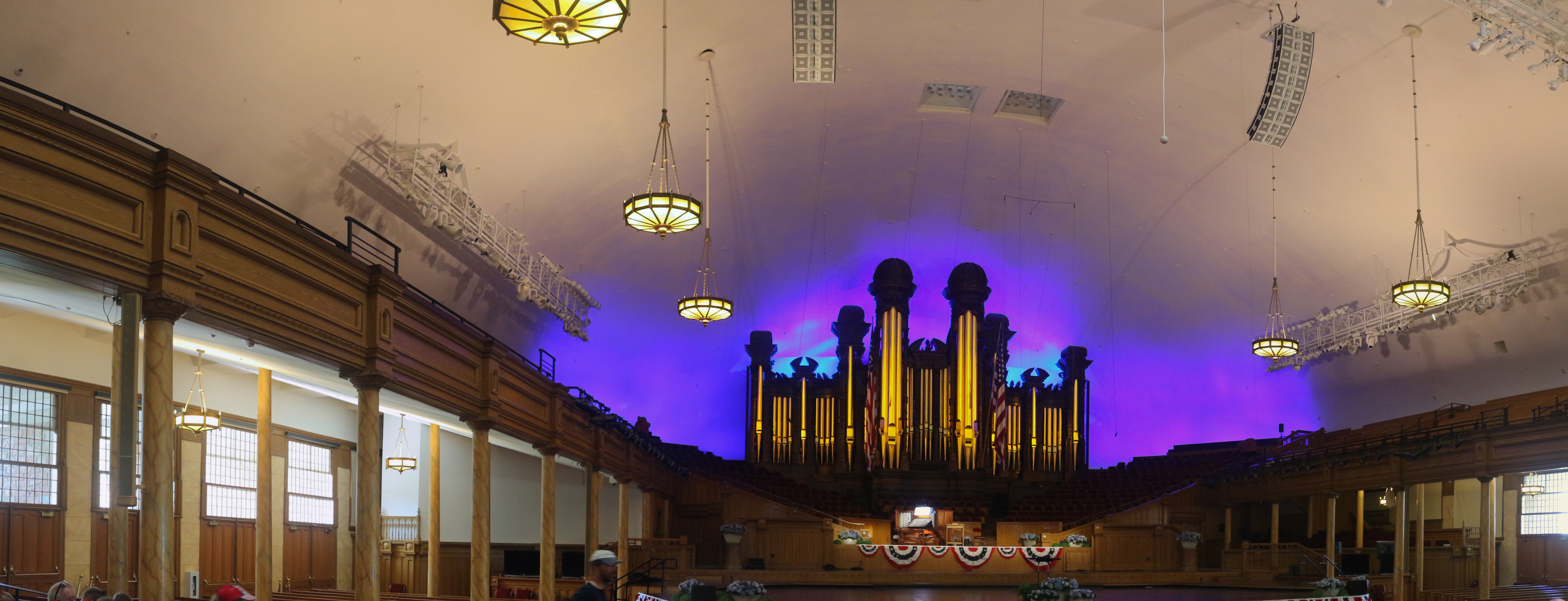 USA, Utah, Salt Lake City, Temple Square, Tabernacle, organ